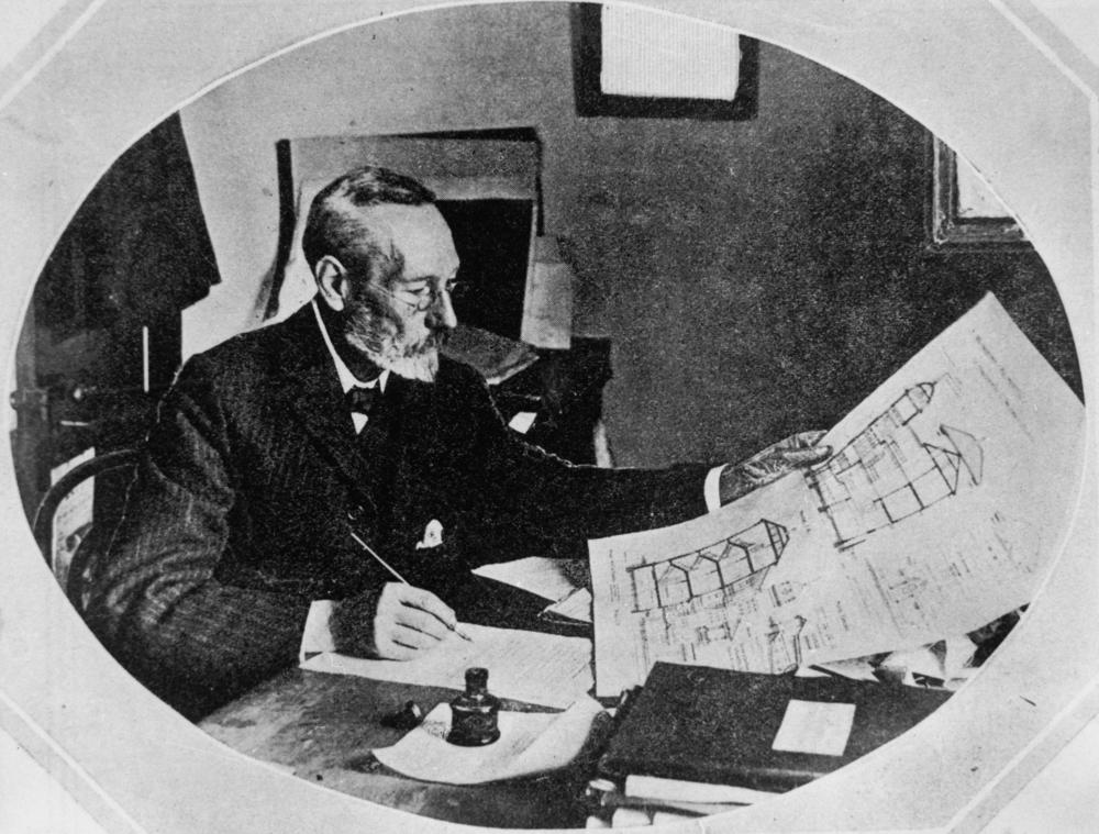 John James Clark (1838 – 1915) studying architectural drawings. JJ Clark was employed as Colonial Architect by the Queensland Department of Works and Buildings from 1883 to 1885. He worked in partnership as Clark and Pye, Architects, Brisbane in 1886 and worked alone in Brisbane from 1887 to 1896. (Description supplied with photograph.).